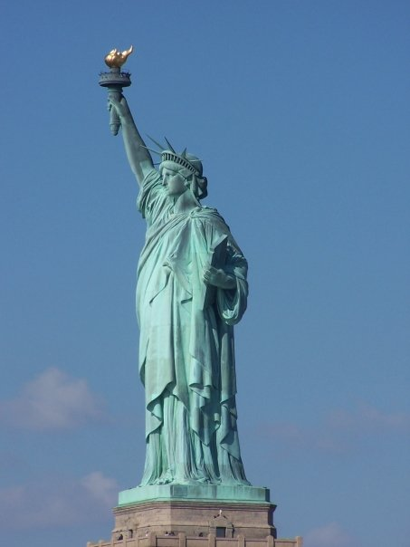 Statue of Liberty New York, New York